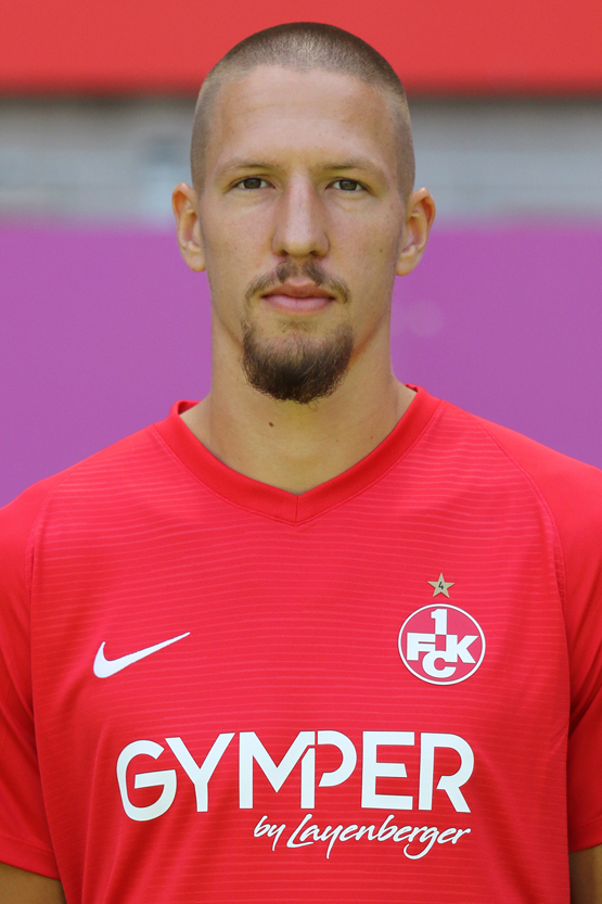 Janik Bachmann (Nr. 26)